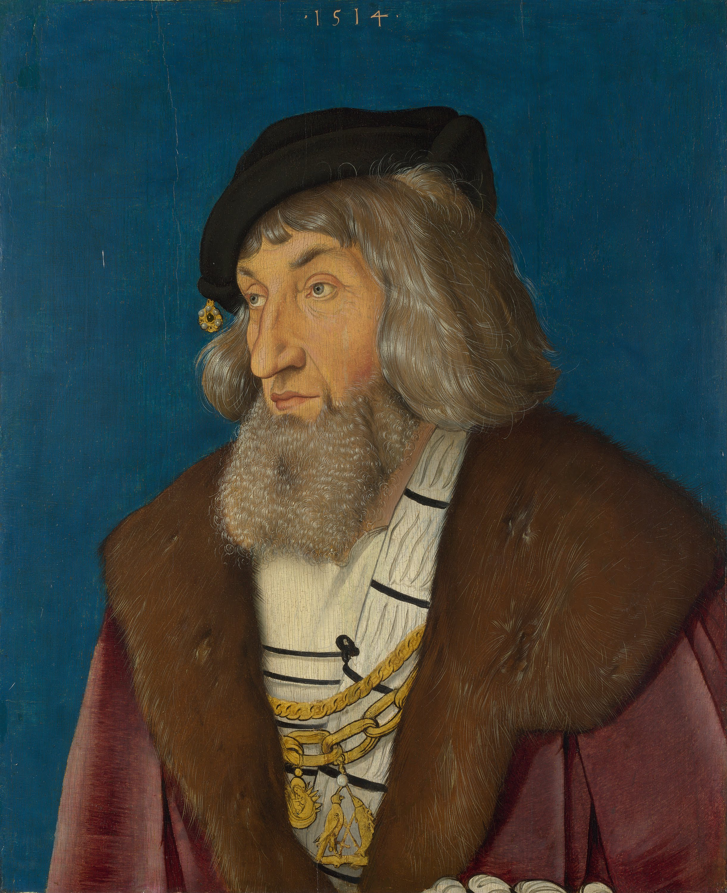 "This bold portrait is of an unknown sitter. The fur collar, the jewel on the cap and the heavy gold chains indicate that he was a man of some wealth. The two badges on the chain can be identified and suggest that he may have been a Swabian and was probably of noble birth. At the bottom of the portrait the top of his puffed white sleeve is just visible. It is probable that the picture has been cut down, and originally showed more of the arm. Baldung is thought to have worked in Albrecht Dürer's workshop; his portraits tend to be less psychologically penetrating than Dürer's. In this work visual display is emphasised. The sweeping lines of hair and curling beard are set off by the flat expanse of face and shirt. The whole is electrified by the bold background colour. The badge showing the Virgin and Child is that of the Order of Our Lady of the Swan. This confraternity, founded by the Elector Frederick II of Brandenburg, admitted only those of noble birth. The other badge belongs to the Fish and Falcon jousting company of Swabia, a knightly organisation." (Citation from National Gallery)